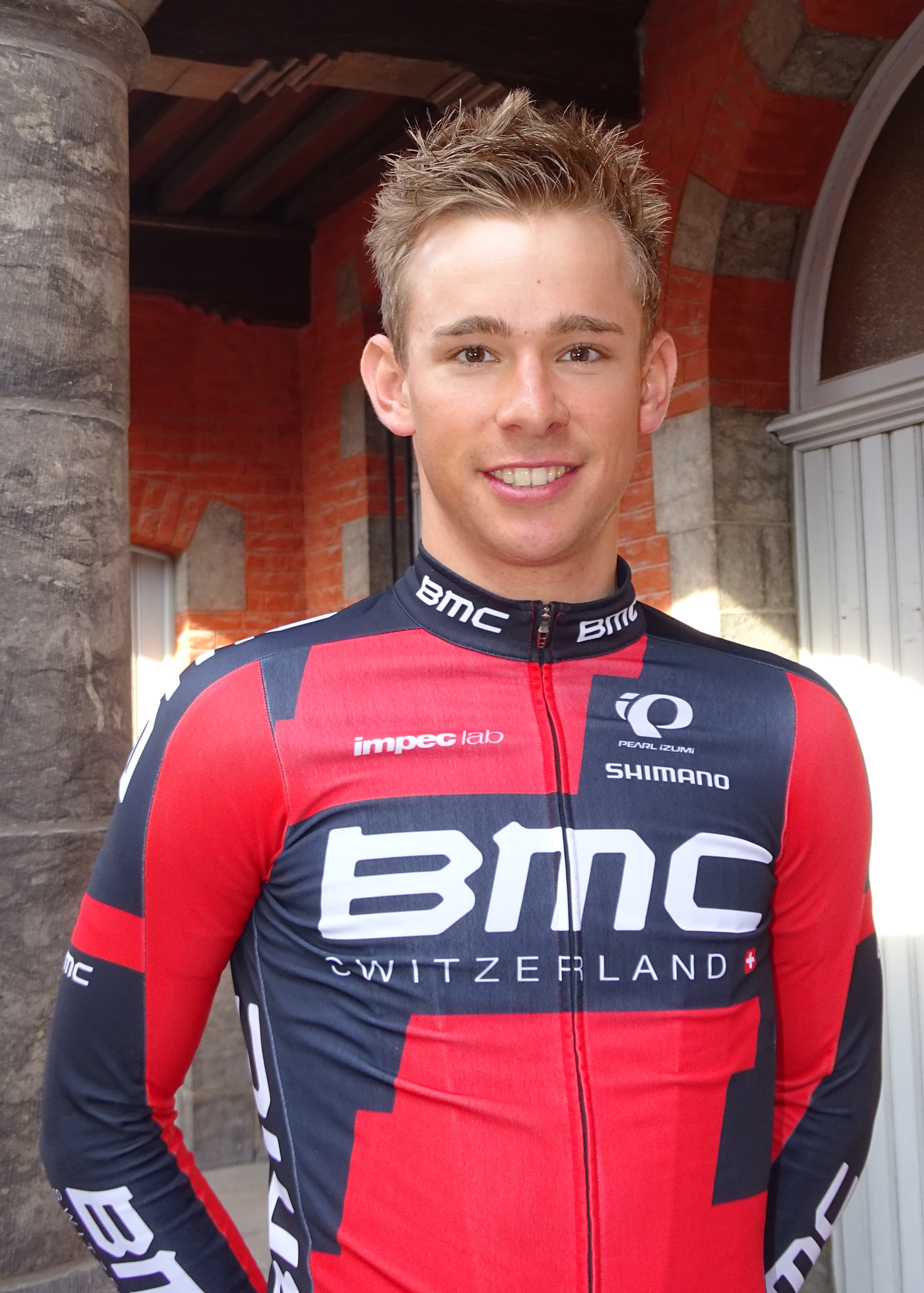 Triptyque des Monts et Châteaux 2016 Depicted person: Fabian Lienhard Depicted team: BMC Development